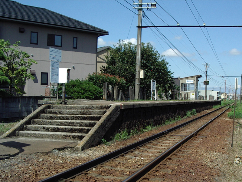 Asanamachi Station on the Toyama Chiho Railway Kamidaki Line in the city of Toyama, Toyama Prefecture, Japan